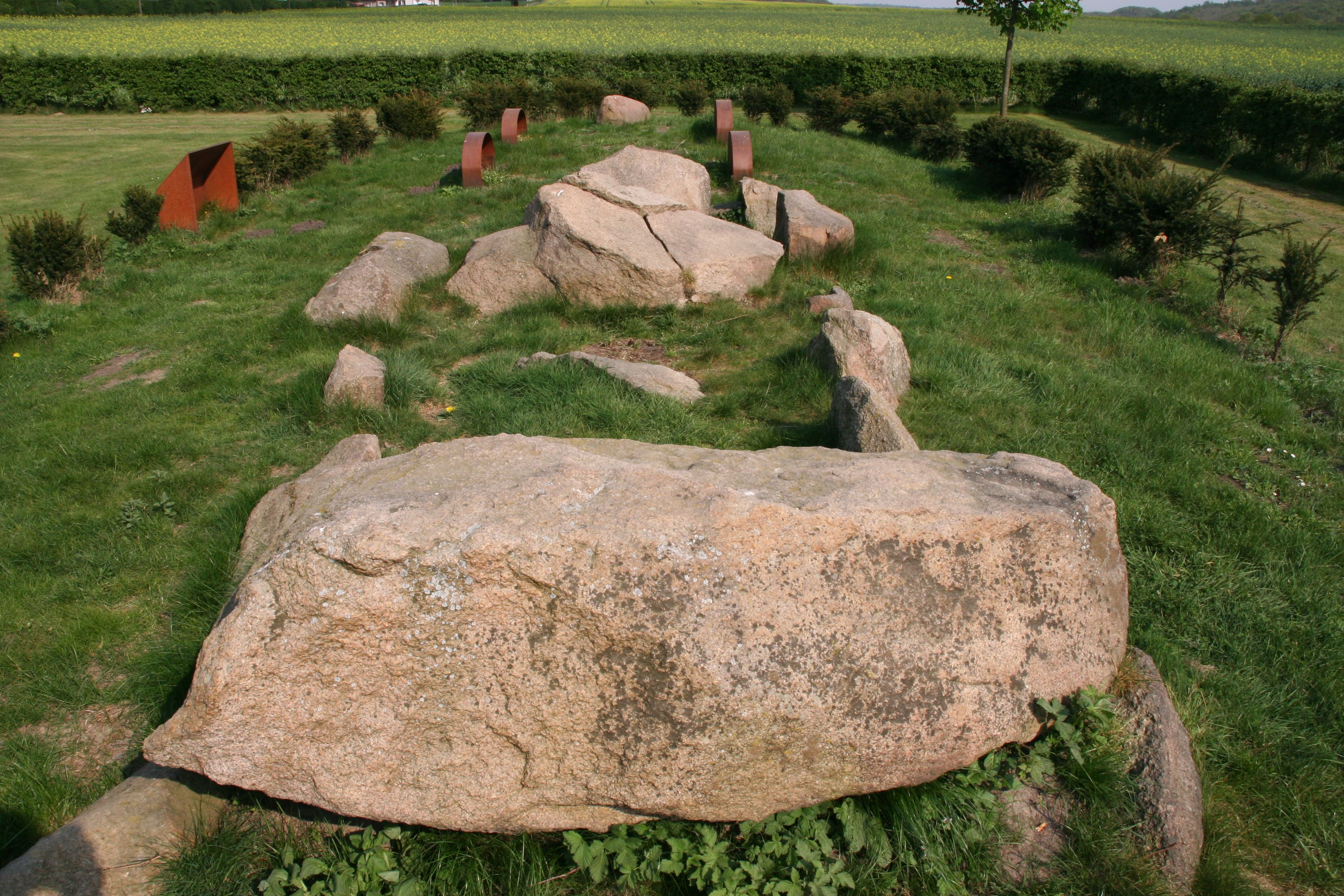 Rulle: megalithic chambered tomb "Helmichsteine"